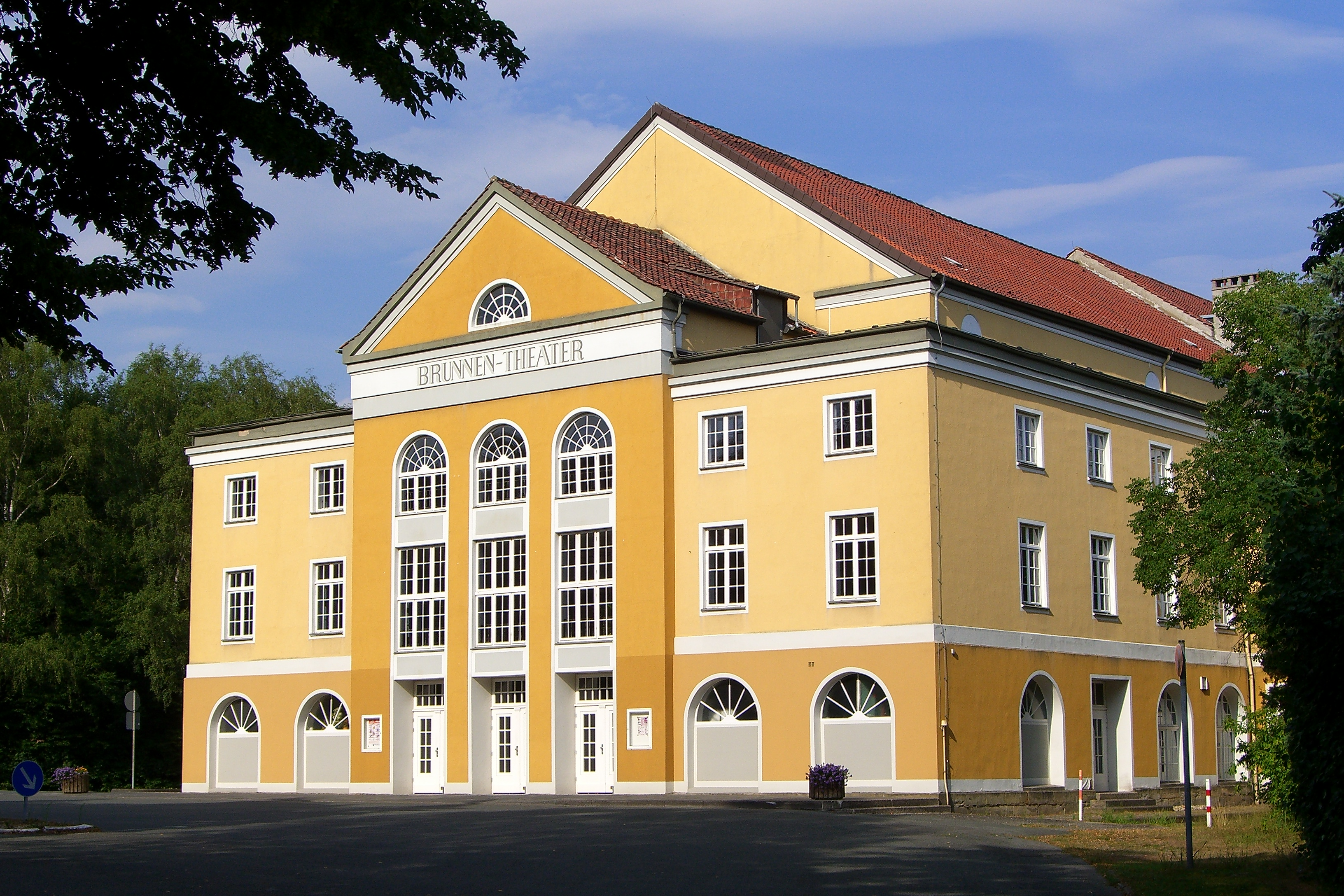 'Brunnentheater' (theatre) in Bad Helmstedt